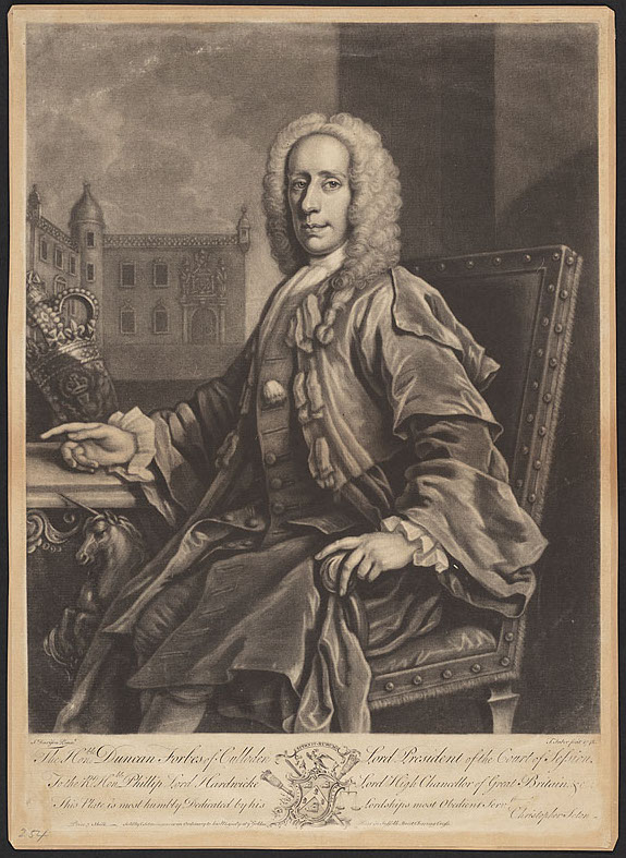 Duncan Forbes (1685-1747)